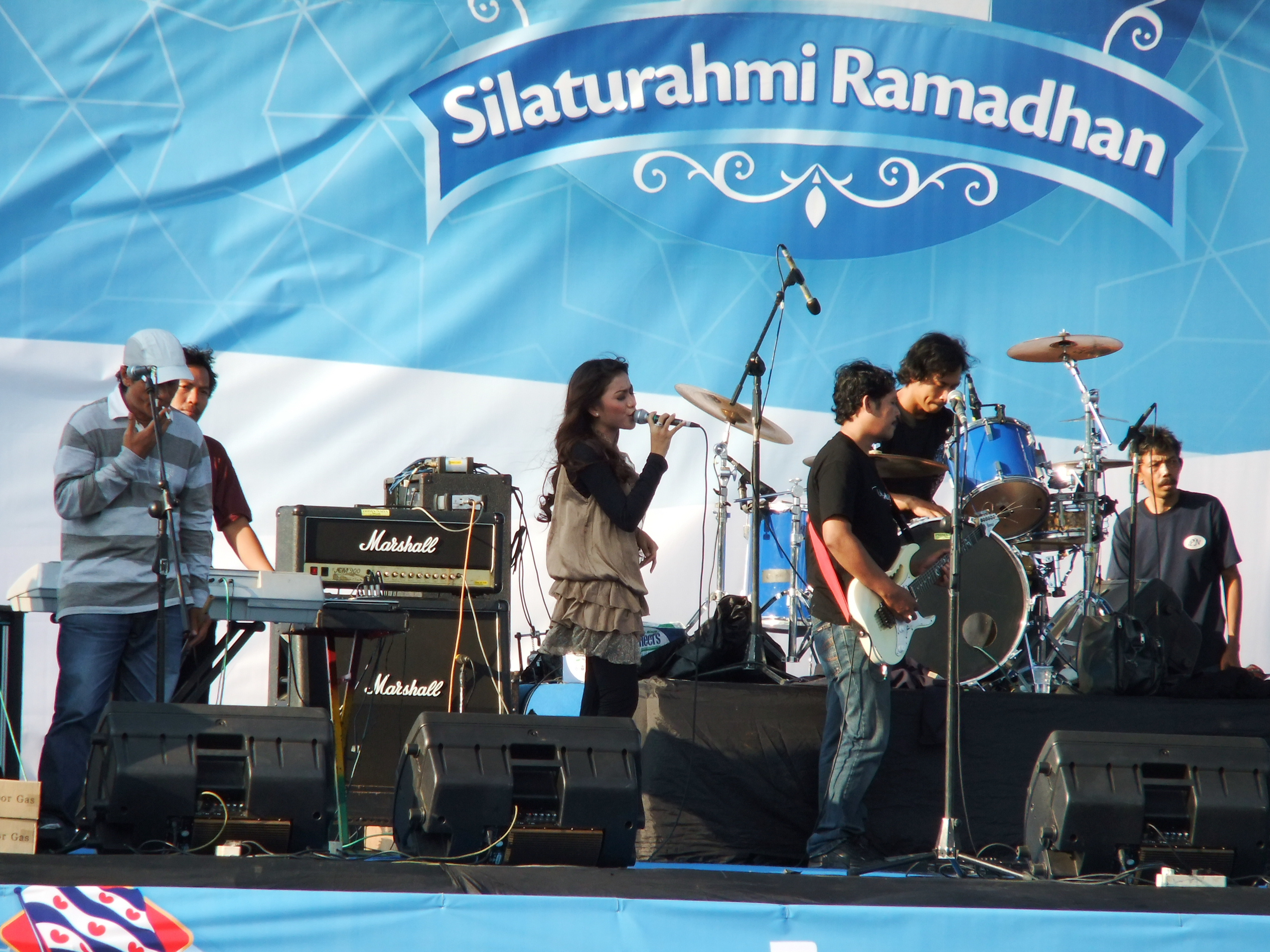 Maya KDI at Silaturahmi Ramadhan, Plaza Surabaya